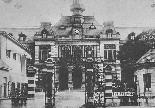 Tokyo Prefectural Office and Tokyo City Hall